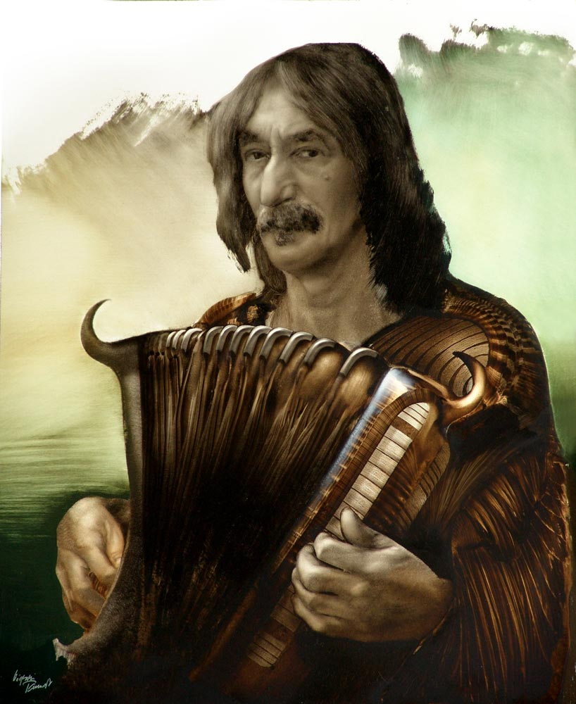 László Waszlavik